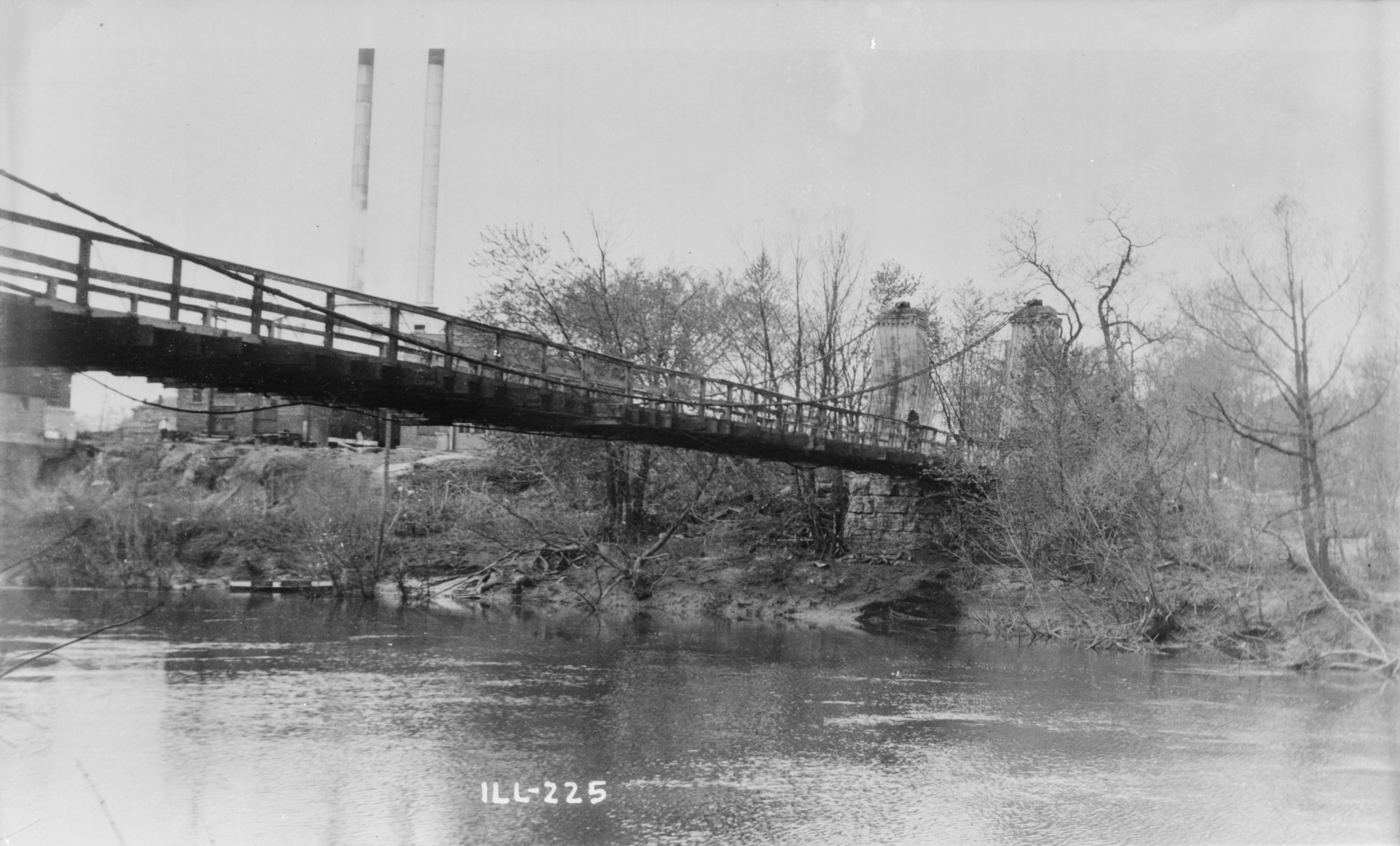 General William F. Dean Suspension Bridge, spanning Kaskaskia River, Carlyle, Clinton County, Illinois.